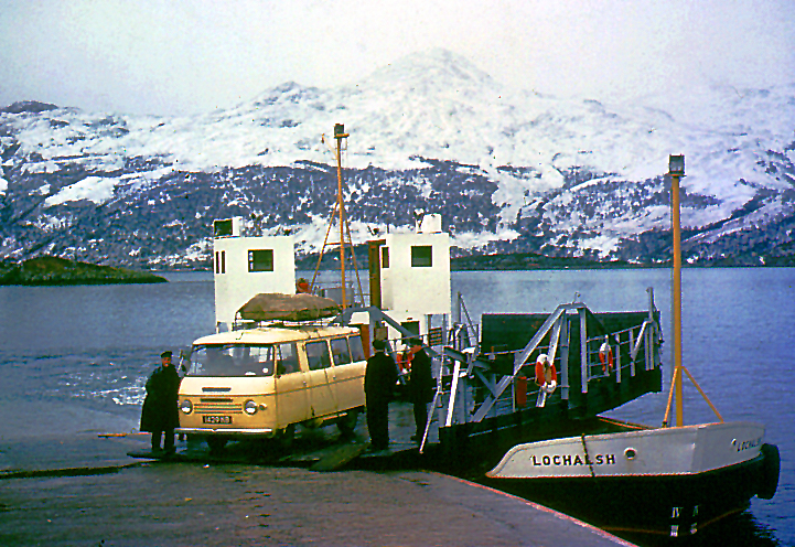 This swing deck ferry, pictured in 1963, was replaced by something more conventional in between this shot and my last visit in 1987. In 1995 the ferry was replaced by a bridge.